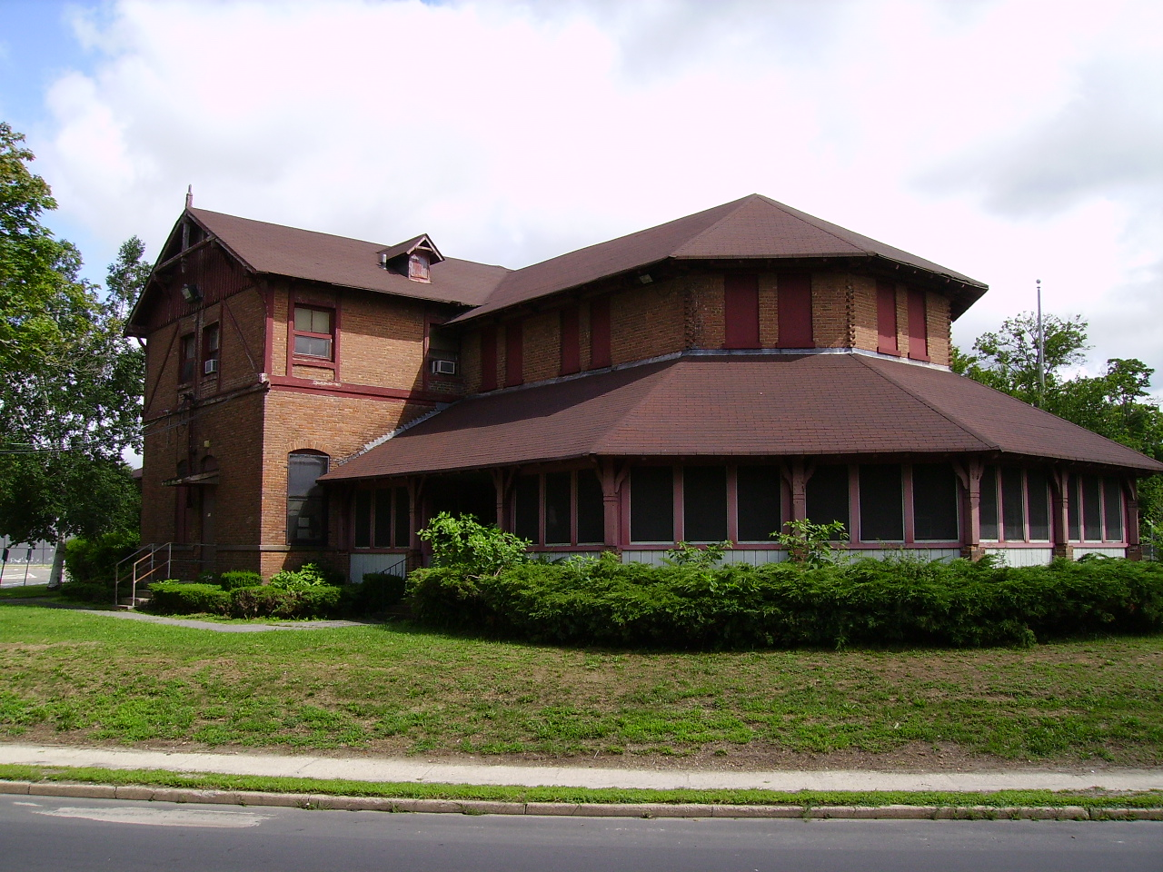 Historic Central Islip Recreation Center Building. Located on Clayton St. Central Islip N.Y. It was constructed in the late 1800's as part of the Central Islip State Hospitals First Colony. Photo James Attanaiso